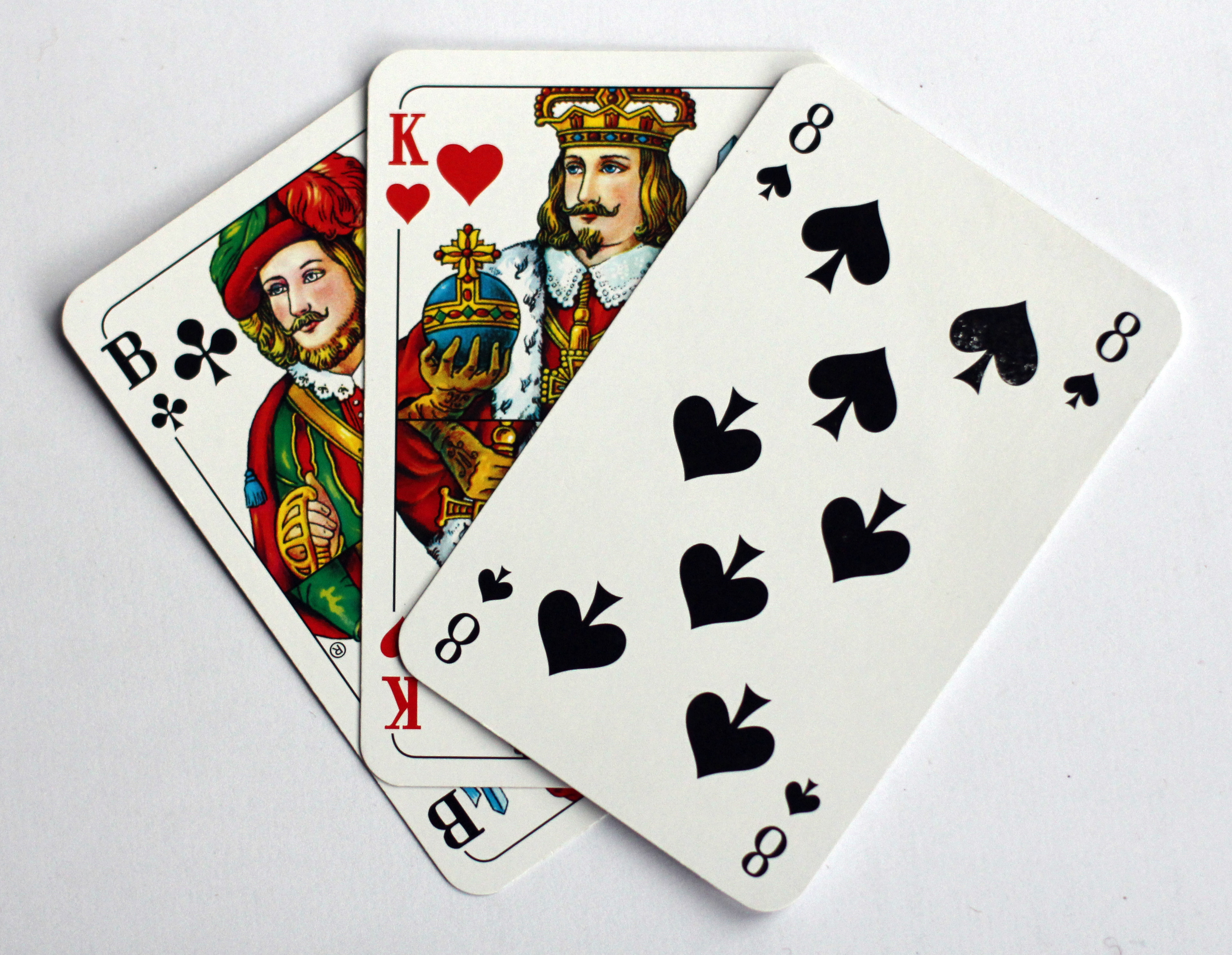 The three top trumps in the north German card game of Bruus - the Spitz, Bruus and Dolle Hund.